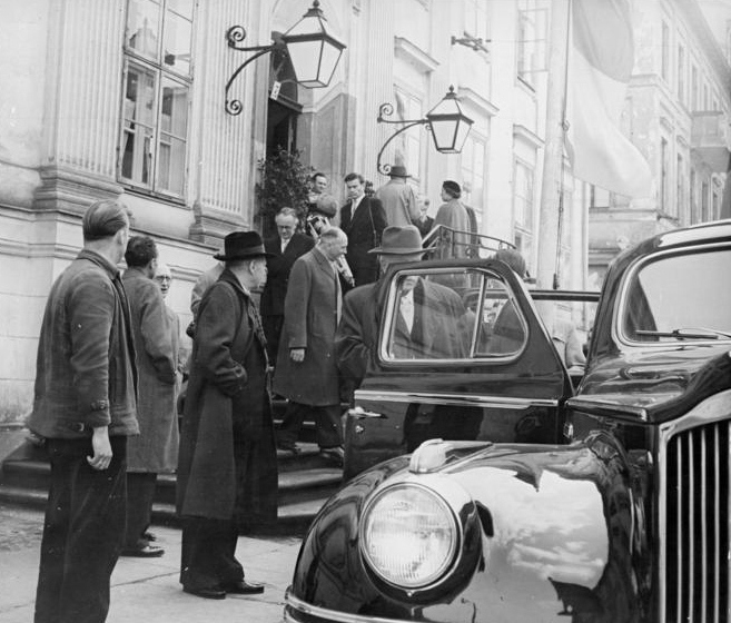 The ceremony celebrating the 100th birthday of Max Planck in at the Berlin Magnus-Haus. After a warm welcome speech, Prof.Dr. Görlich handed Mayor Friedrich Ebert the Magnus-Haus , on behalf of the Magistrate of Greater Berlin of the Physical Society in the GDR . Another highlight of the ceremony was the official handover of the Max Planck library to the Physical Society in the GDR by the member of the Academy of Sciences, Prof.Dr.Joffe. Shown here: The guests of honor leave the Magnus-Haus after completion of the ceremony.